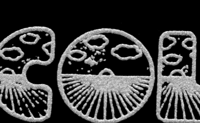 Screen printing uses stencils for the non image parts. The strong ink layers show banks on the edges. Sometimes the screen forms also a serrated teeth structure